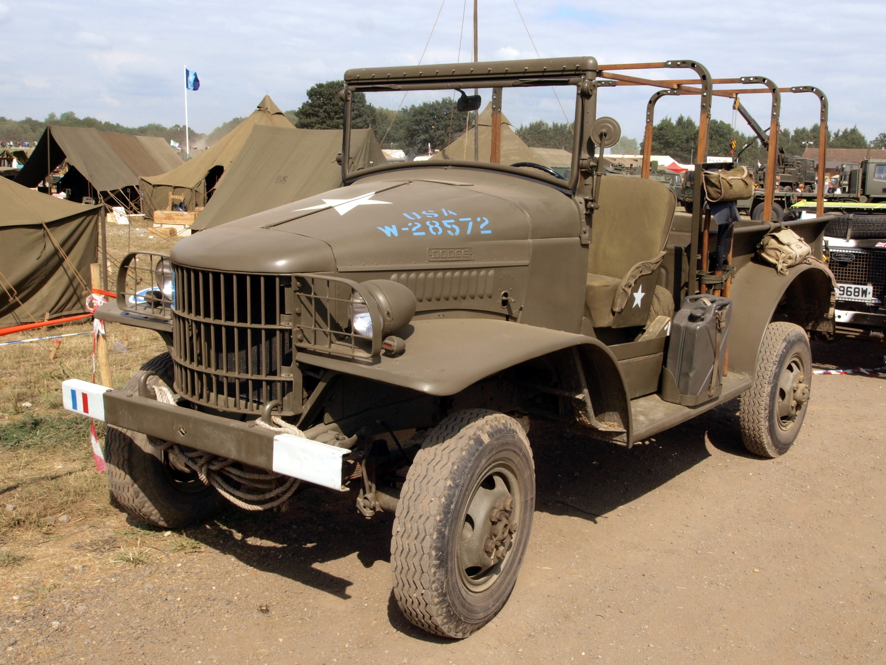 Photographed at the War & Peace show. Actually a WC-3 Weapons Carrier without winch — the U.S Ordnance Department Administrative and Tactical Vehicles per QMC Contract.nr, 1940 through 1 January 1944 (Dodge T-207) identifies registration number 28572 as a T-207 — meaning a WC-3